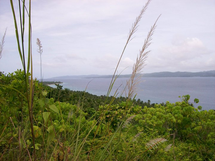 dalupiri top view 01